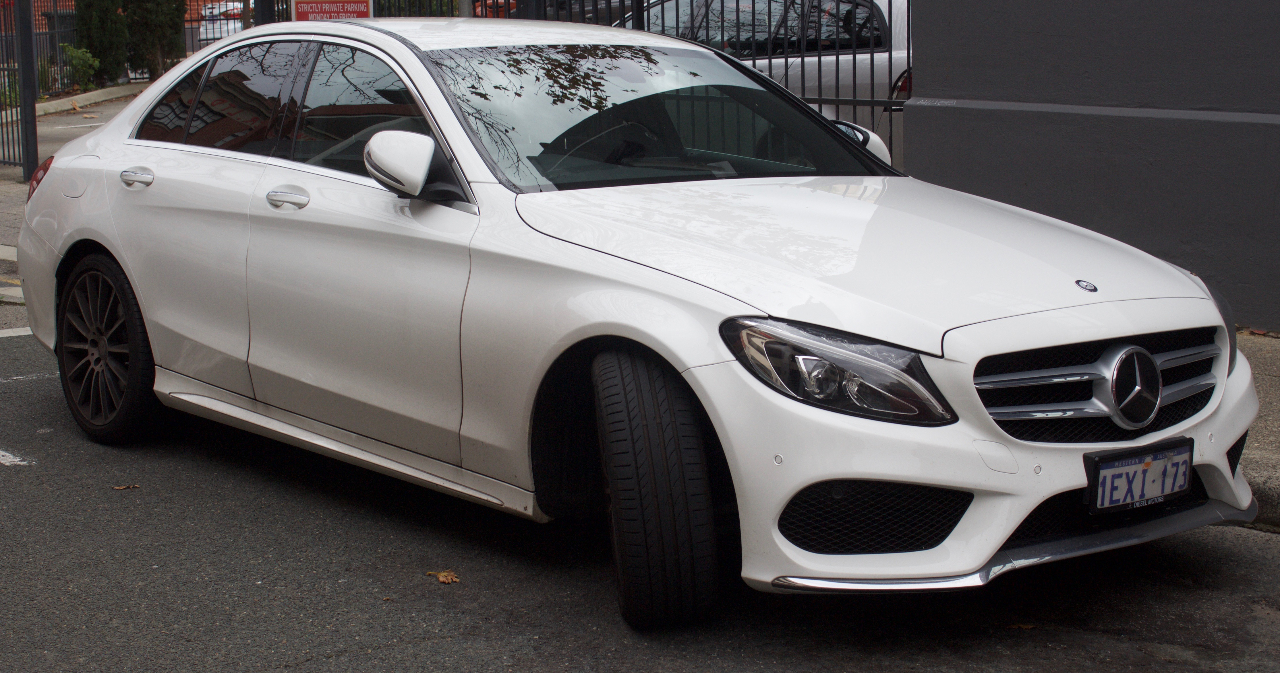 2015 Mercedes-Benz C 250 (W 205) sedan. Photographed in Fremantle, Western Australia, Australia.